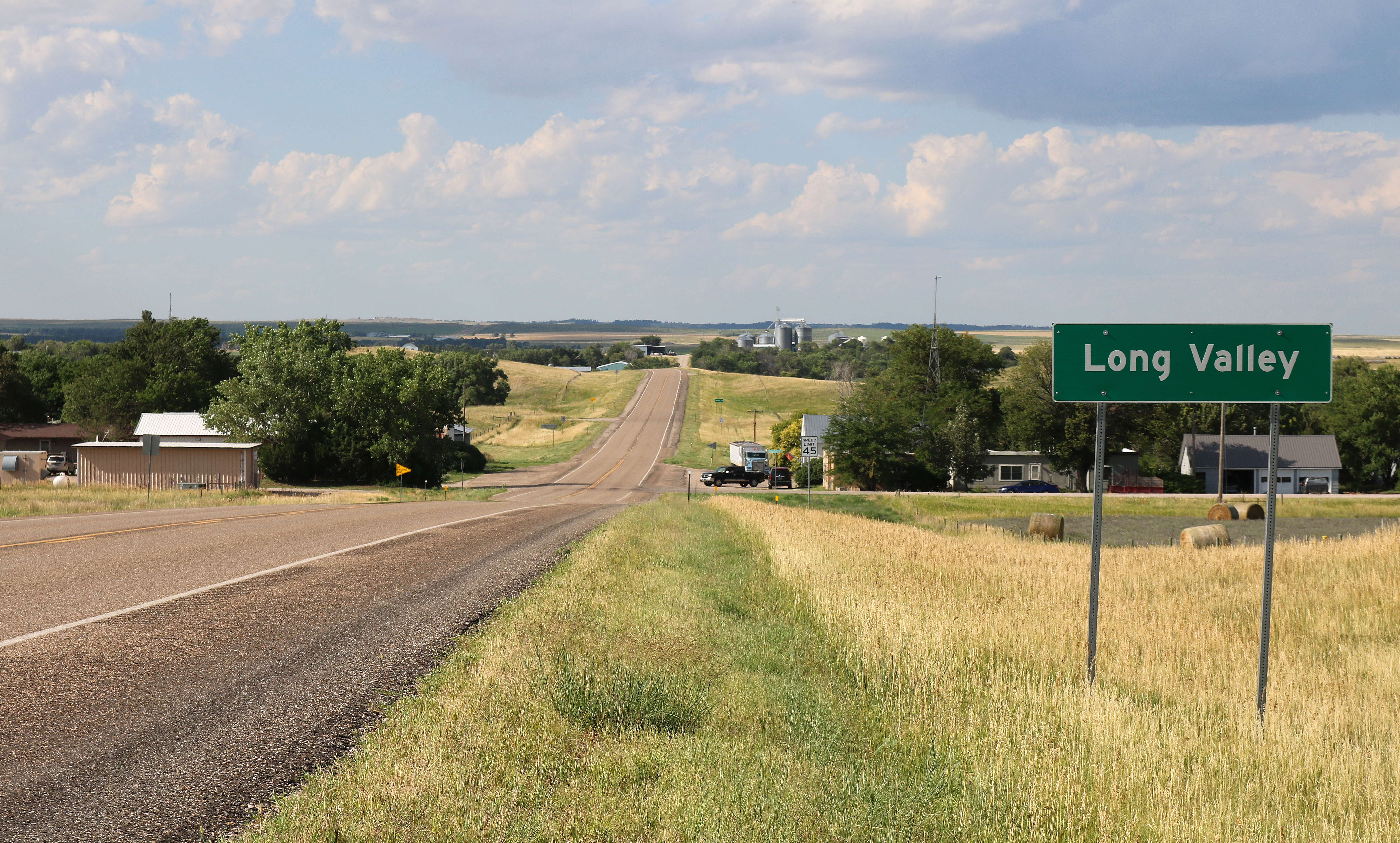 A view of Long Valley, South Dakota in Jackson County. The view is looking to the north along South Dakota Highway 73.